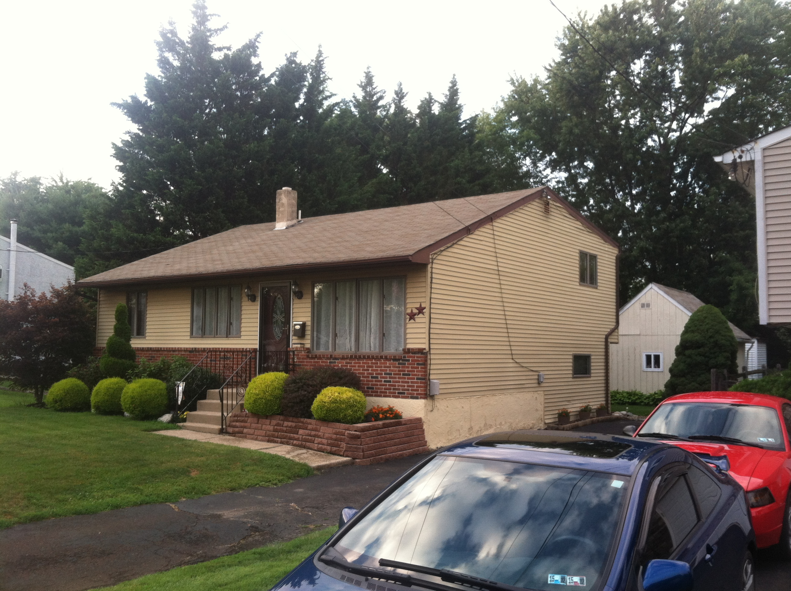 This is a backsplit splitlevel house where the split level is only visible from the side elevation. The front elevations shows only a single story and the two stories are in the back.